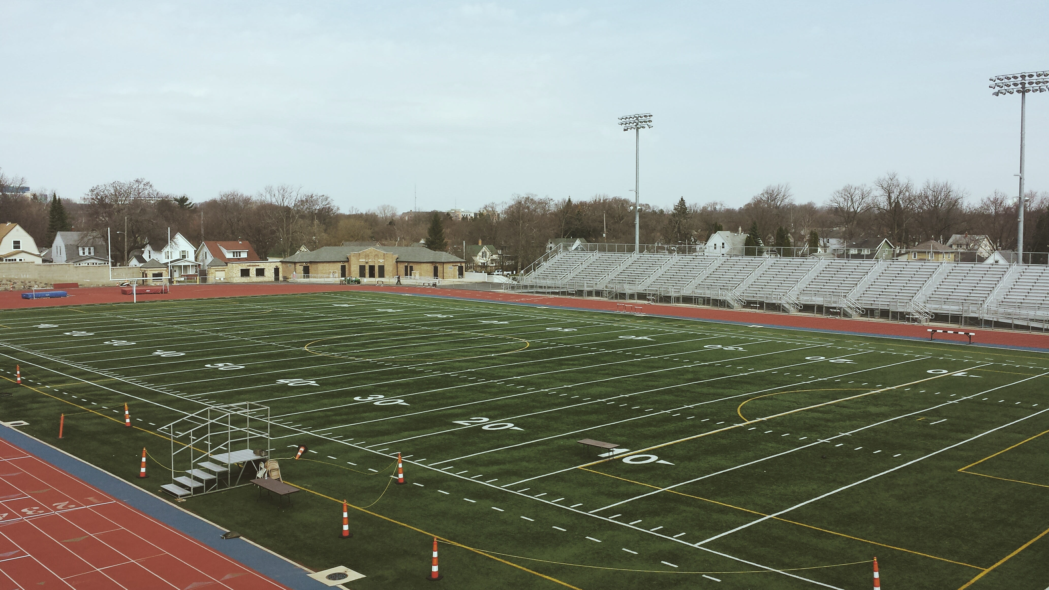 Houseman Field Visitors Side